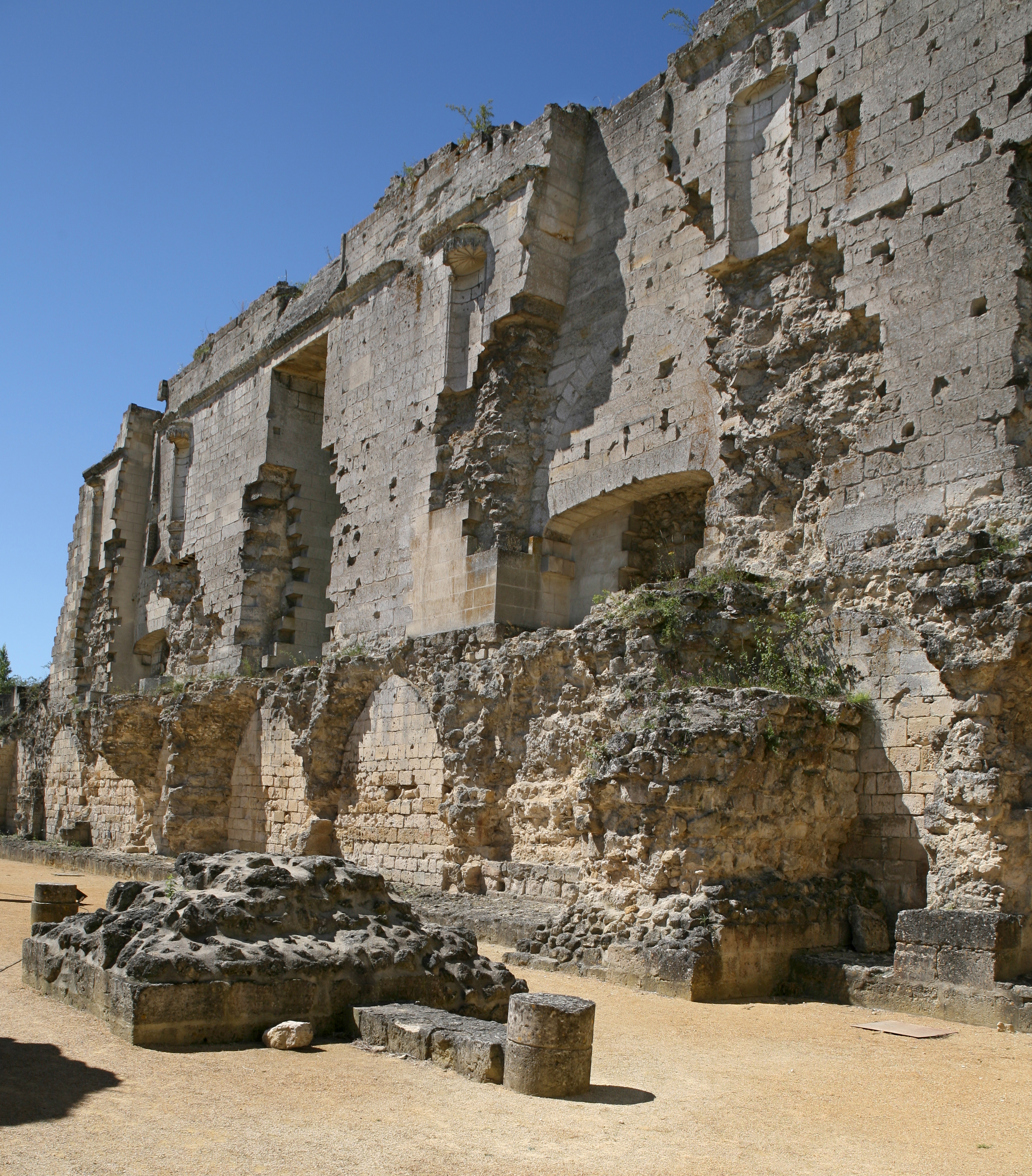 The donjon ruines in the Château de Coucy